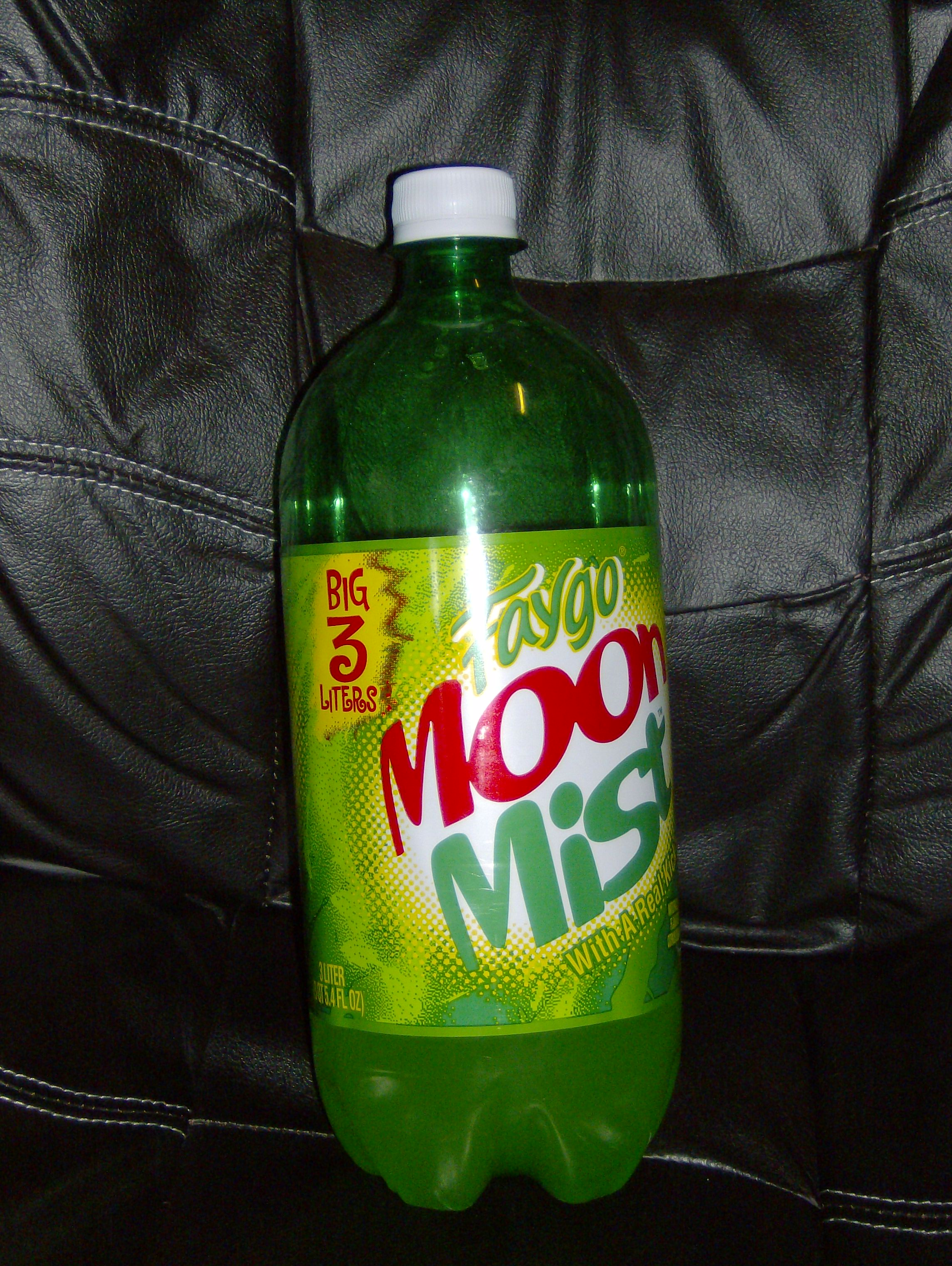 A 3-liter bottle of Faygo Moon Mist, a refreshing citrus pop.